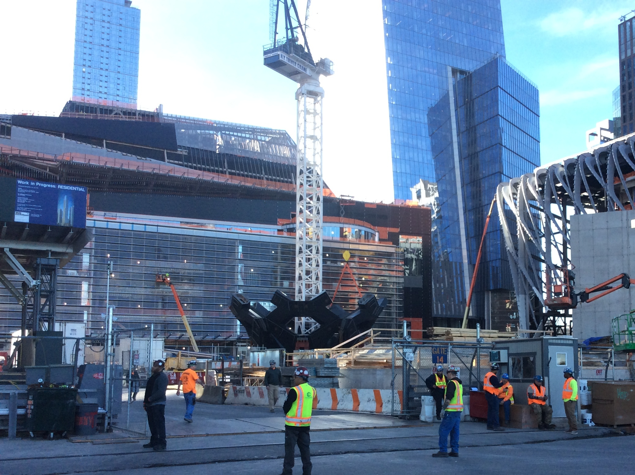 The Hudson Yards area of Manhattan in May 2017